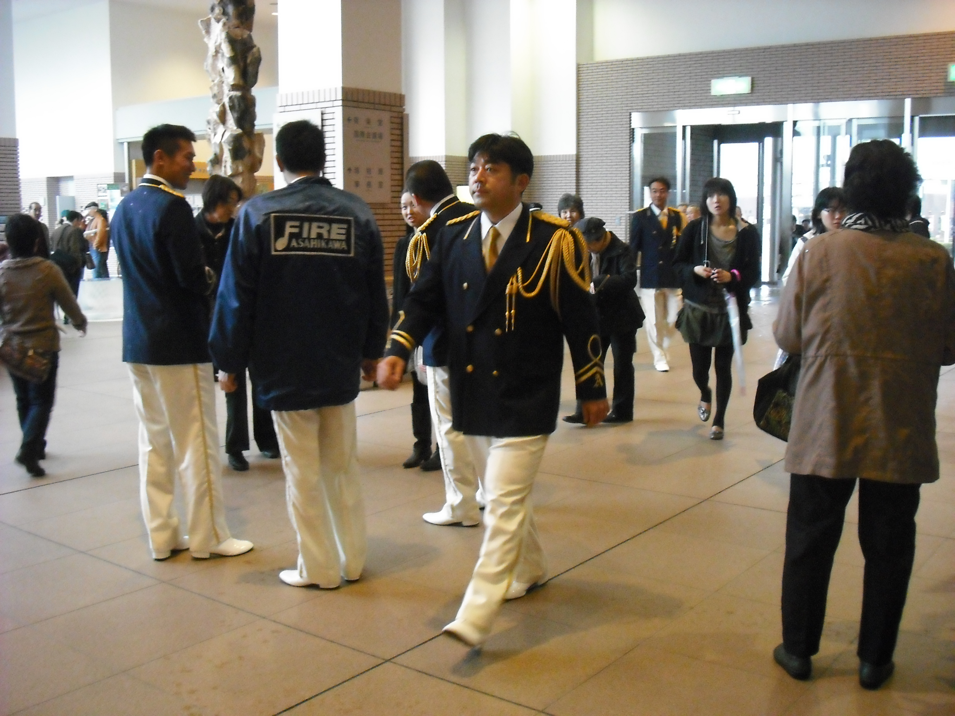 Bandsman of Asahikawa city Fire Department